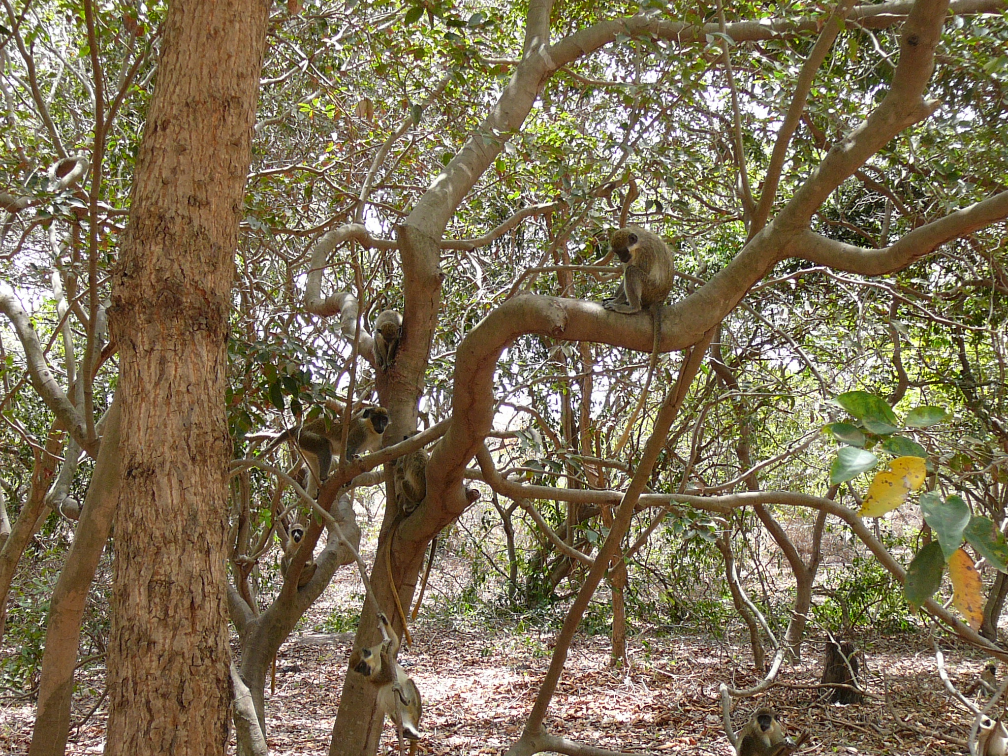 Green Monkey